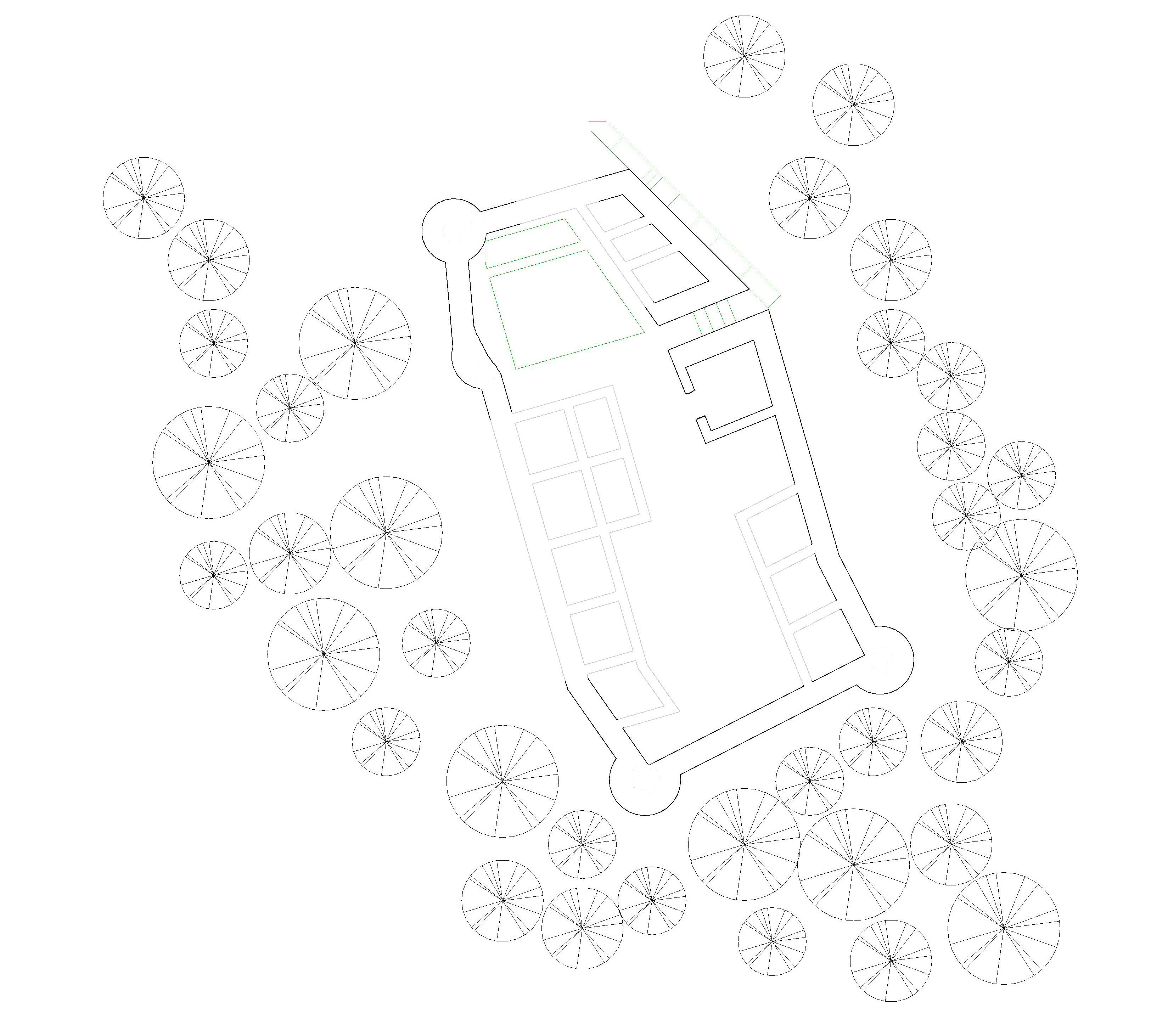 Castle Marco Plan